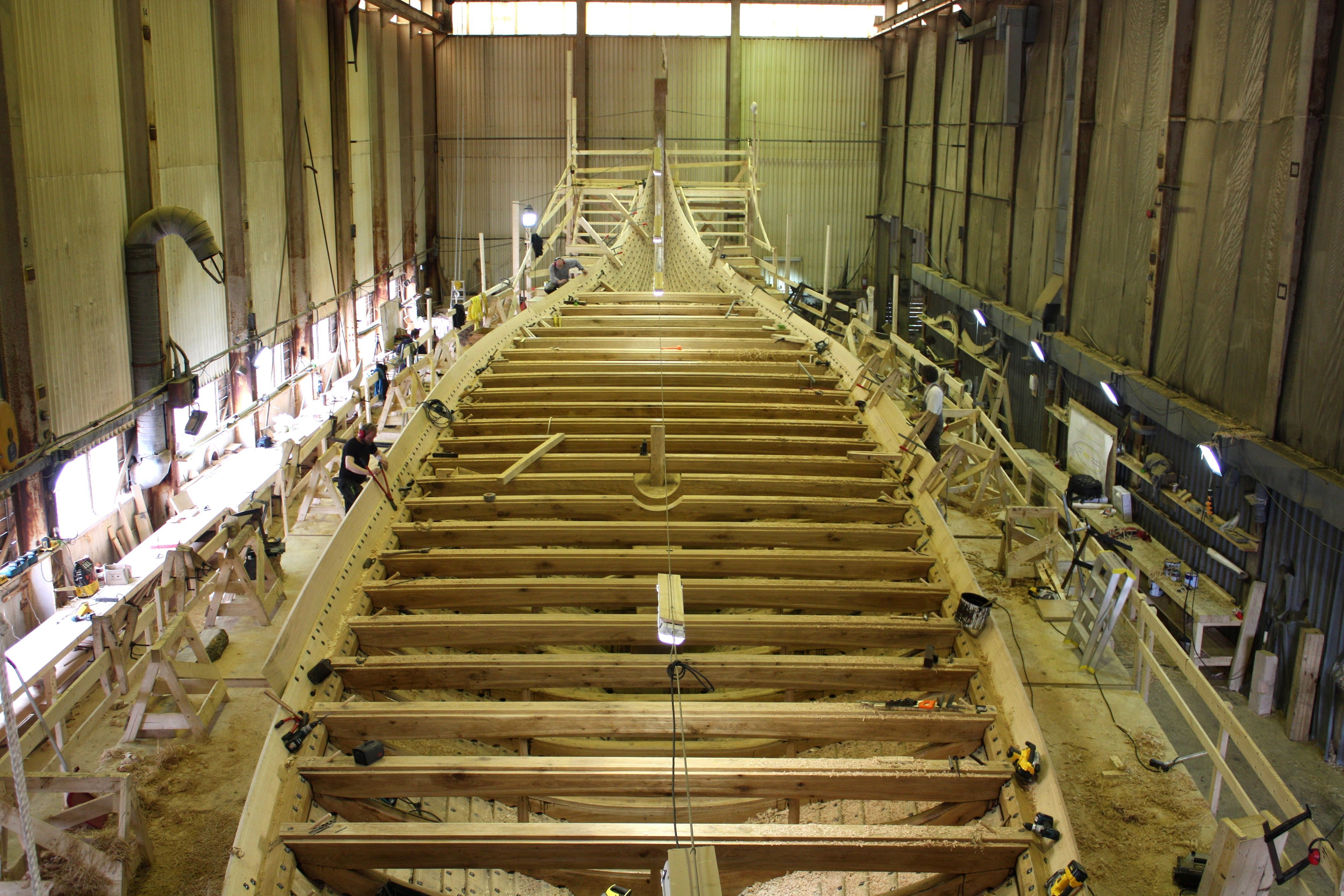 Viking ship Dragon Harald Fairhair, Working with 17th strake, May 2011